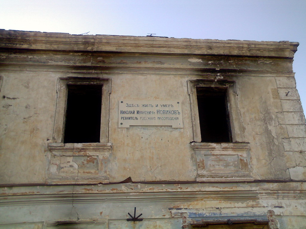 Memorial plate in the honor of Nikolay Novikov in Avdot'ino